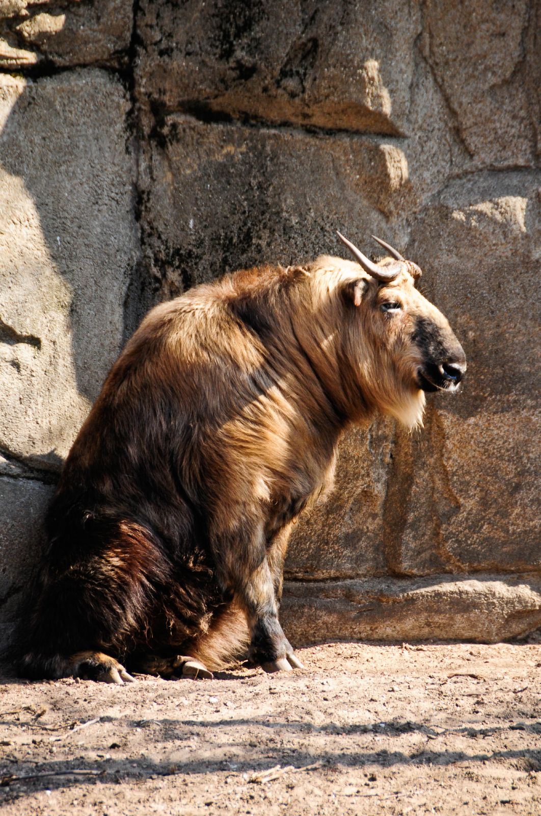 A Sichuan Tikan at Chicago's Lincoln Park Zoo.